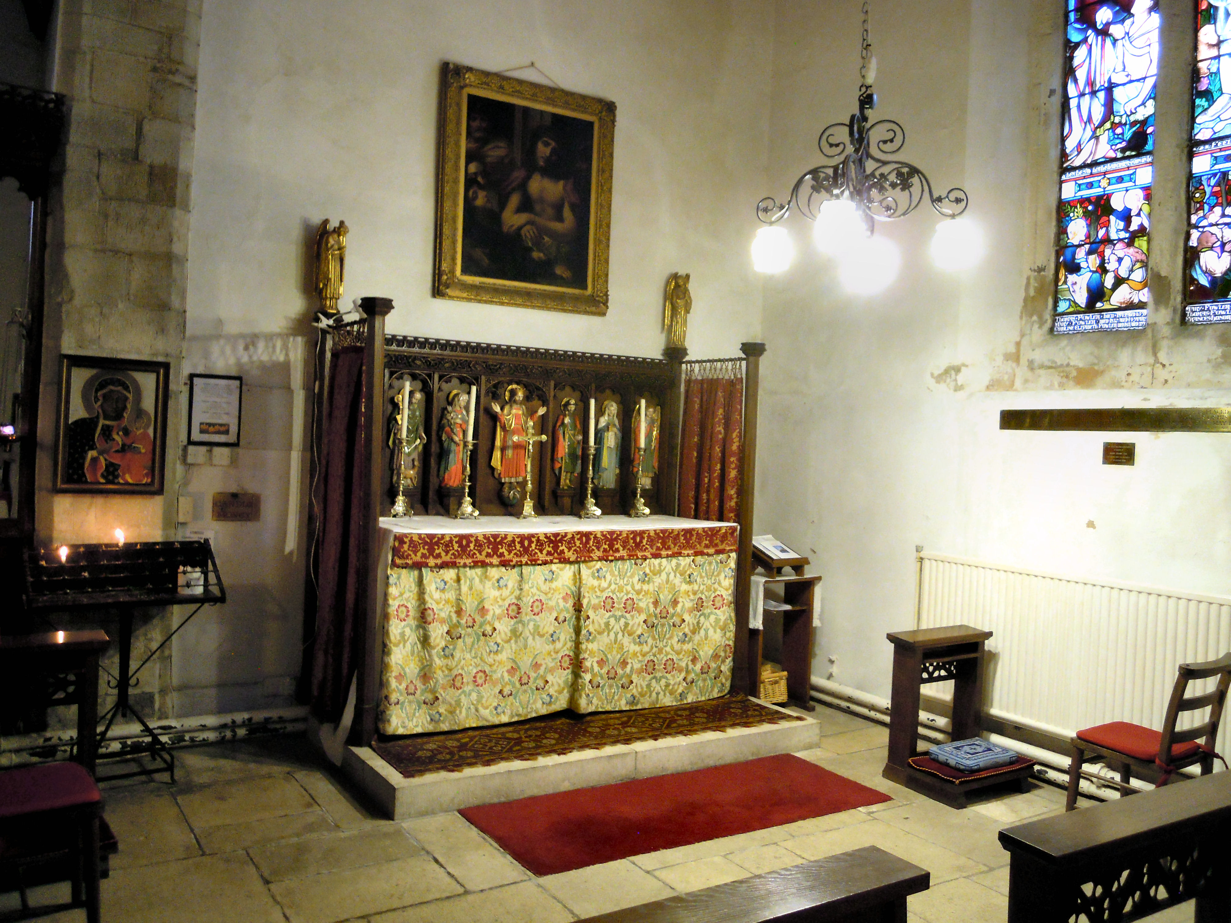 The Chapel of St James at the Church of St Michael and All Angels, Great Torrington in Devon